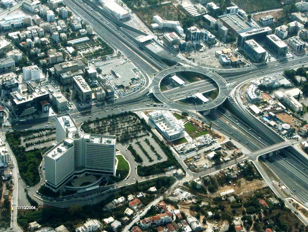 Aerial view of Highways in the Maroussi suburb, north of Athens, Greece. Photo taken in 2004.